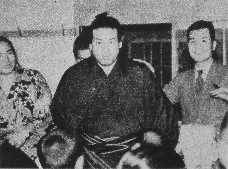 Sakuranishi Morihiro, Komusubi. 1940.